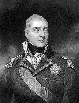 Sir Edward Pellew, 1. Viscount Exmouth (1757–1833), British admiral